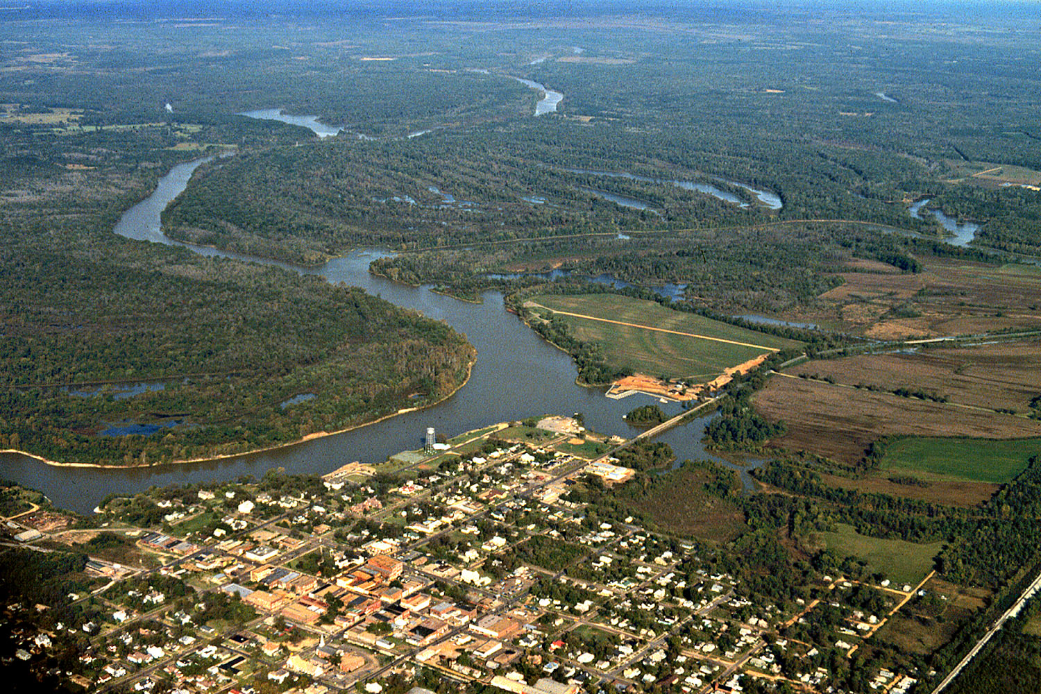 Aerial view of Demopolis, Alabama, USA. The confluence of the Black Warrior River with the Tombigbee River can be seen at center. The Tombigbee is at left the the Black Warrior flows in from the right to join the Tombigbee. The Tombigbee is the border between Sumter County (left) and Greene County (center). The Black Warrior is the border between Green County (center) and Hale County (right). South of the confluence is Marengo County, in which the city is located. View is to the northwest. Coordinates: 32°31′2.5″N 87°50′34.76″W / 32.517361°N 87.8429889°W